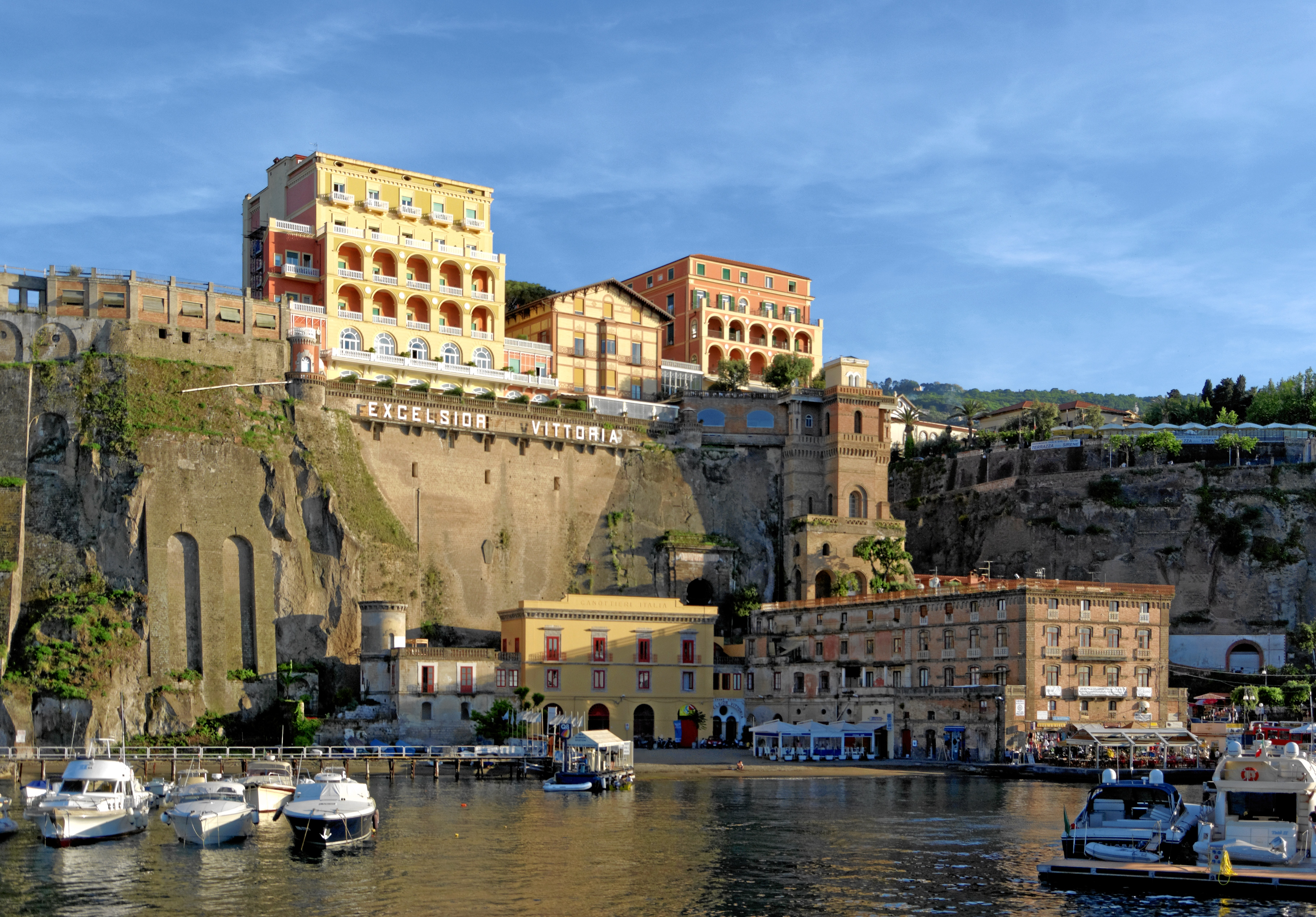 Sorrento